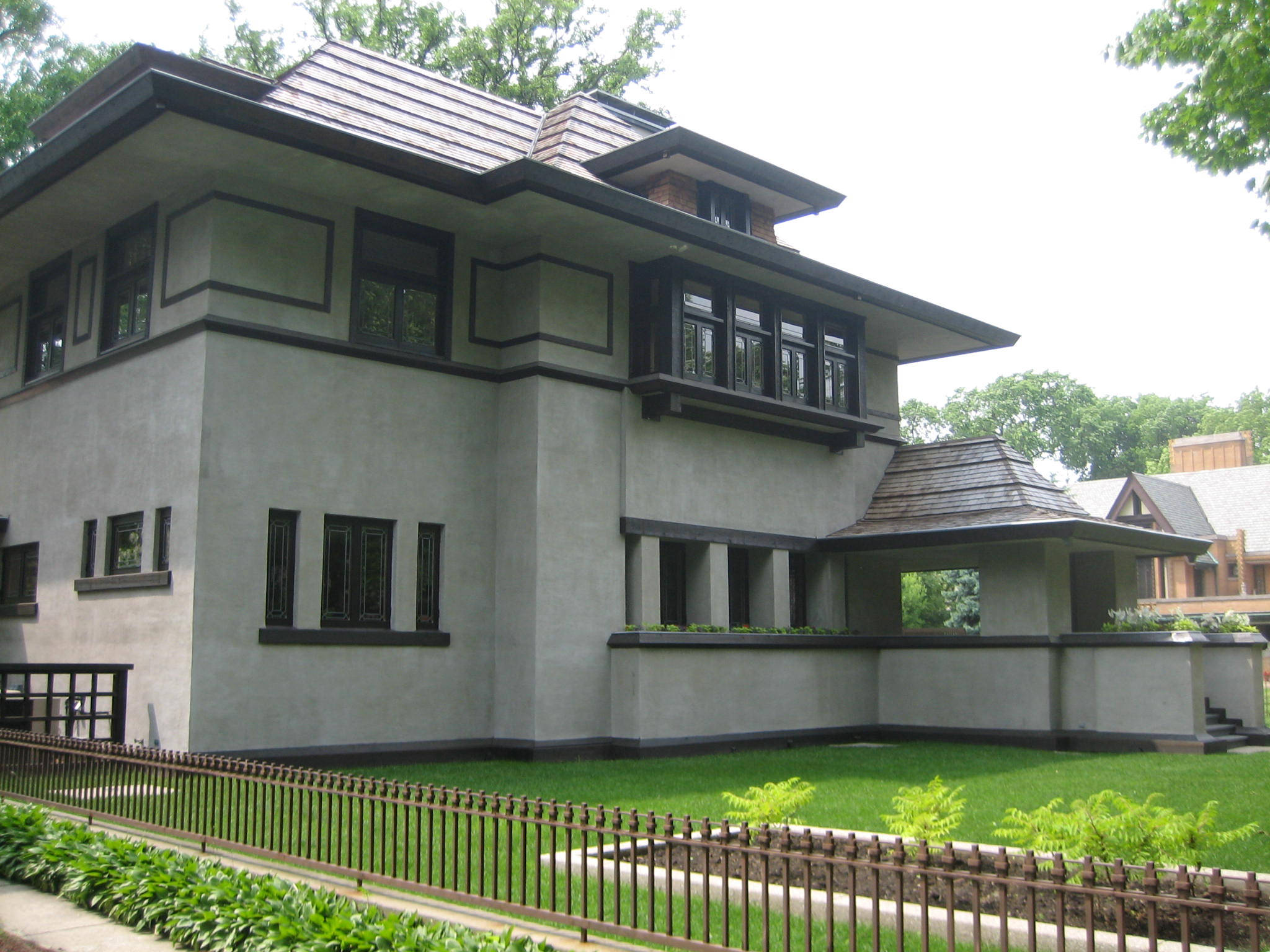 Edward R. Hills House (Hills-DeCaro House), complete remodel designed by Frank Lloyd Wright, 1906. Oak Park, Illinois, USA. Listed as a contributing property to the U.S. National Register of Historic Places listed Frank Lloyd Wright-Prairie School of Architecture Historic District as well as being designated a local Oak Park Landmark.